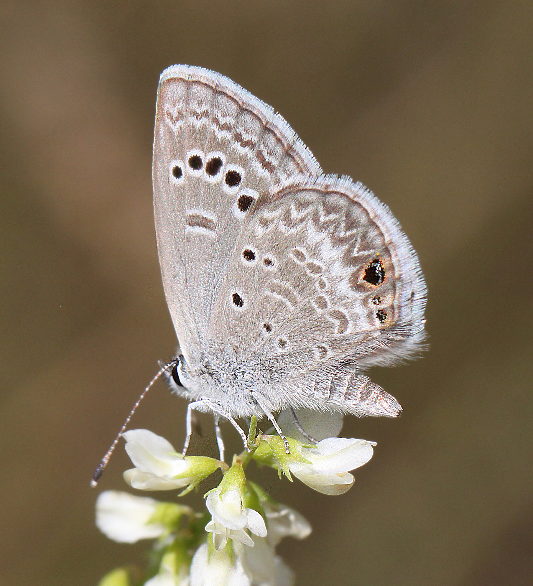 ARIZONA - BUTTERFLIES